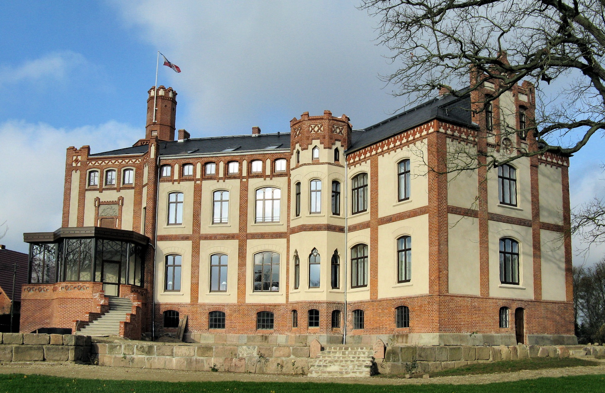 Manor house Schloss Gamehl in Gamehl, Mecklenburg-Vorpommern, Germany